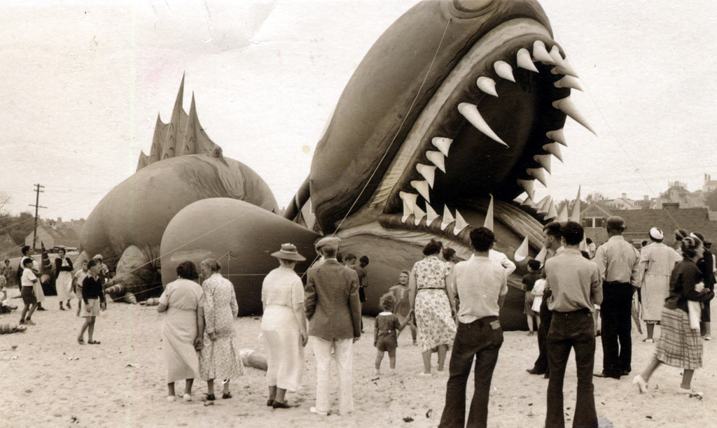 The Sea Serpent was visited by all of Nantucket in the summer of 1937. Inflatable art by Tony Sarg. Image number: PC-Humor-2